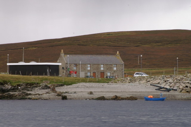 The former post office, Gutcher Taken from the Fetlar ferry as it comes into the terminal.